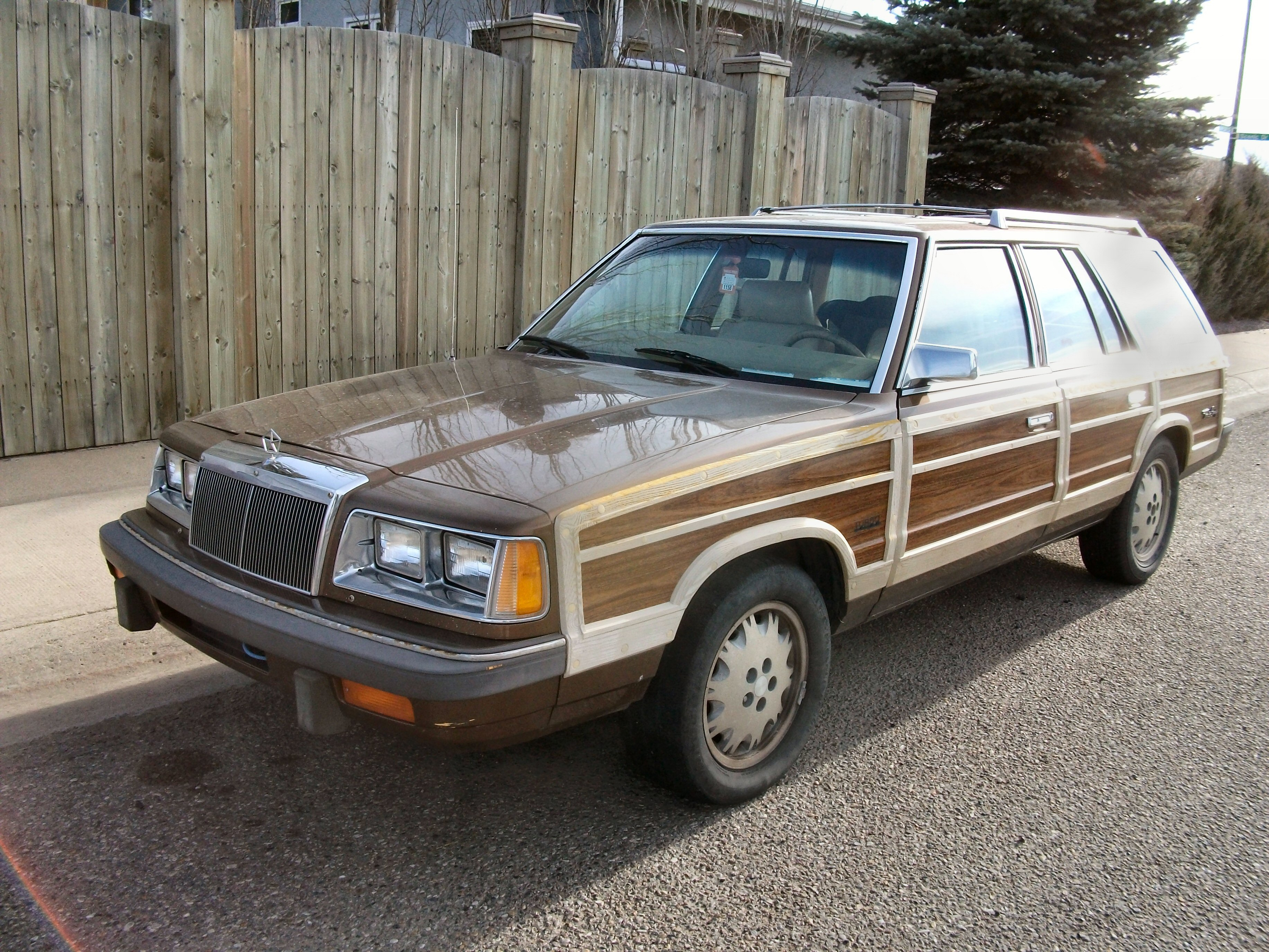 1986 Chrysler LeBaron Town & Country Station Wagon - with the fake wood paneling and alloy wheels.